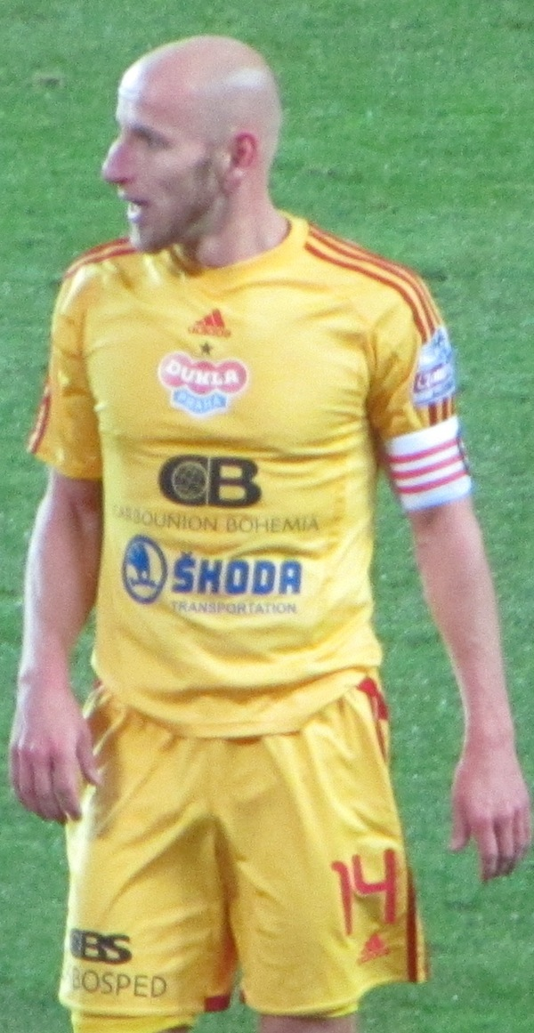 Tomislav Božić of FK Dukla Praha during the match against SK Slavia Praha